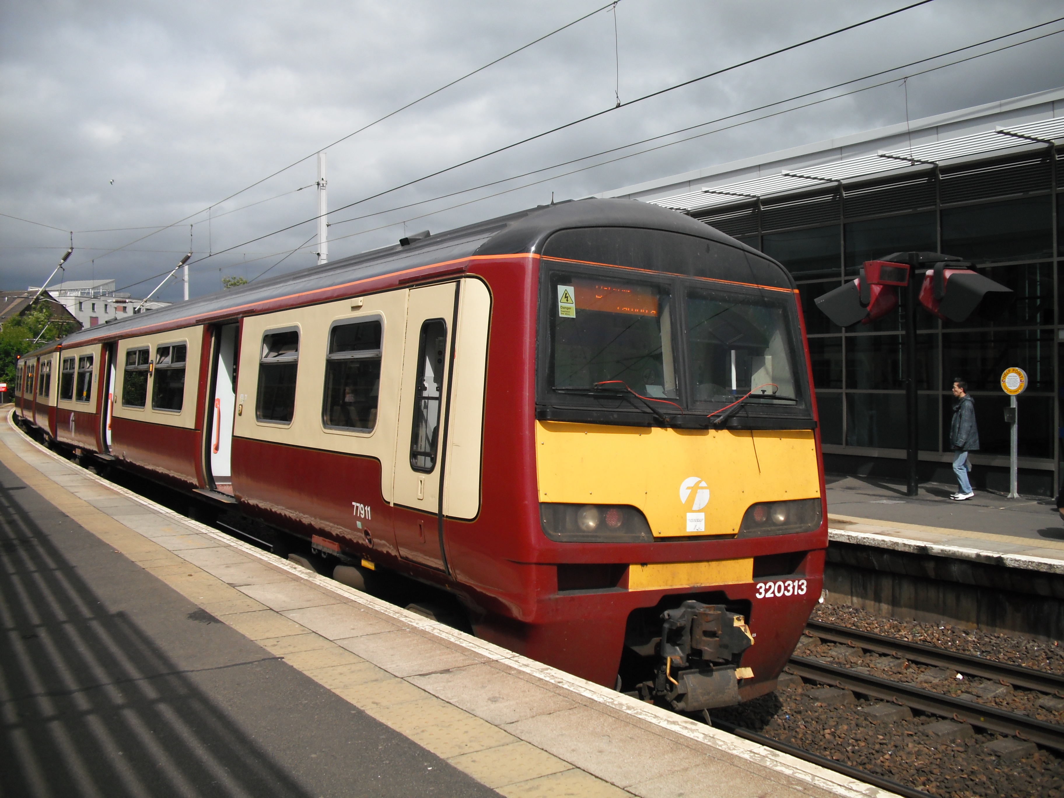 Class 320 at Partick